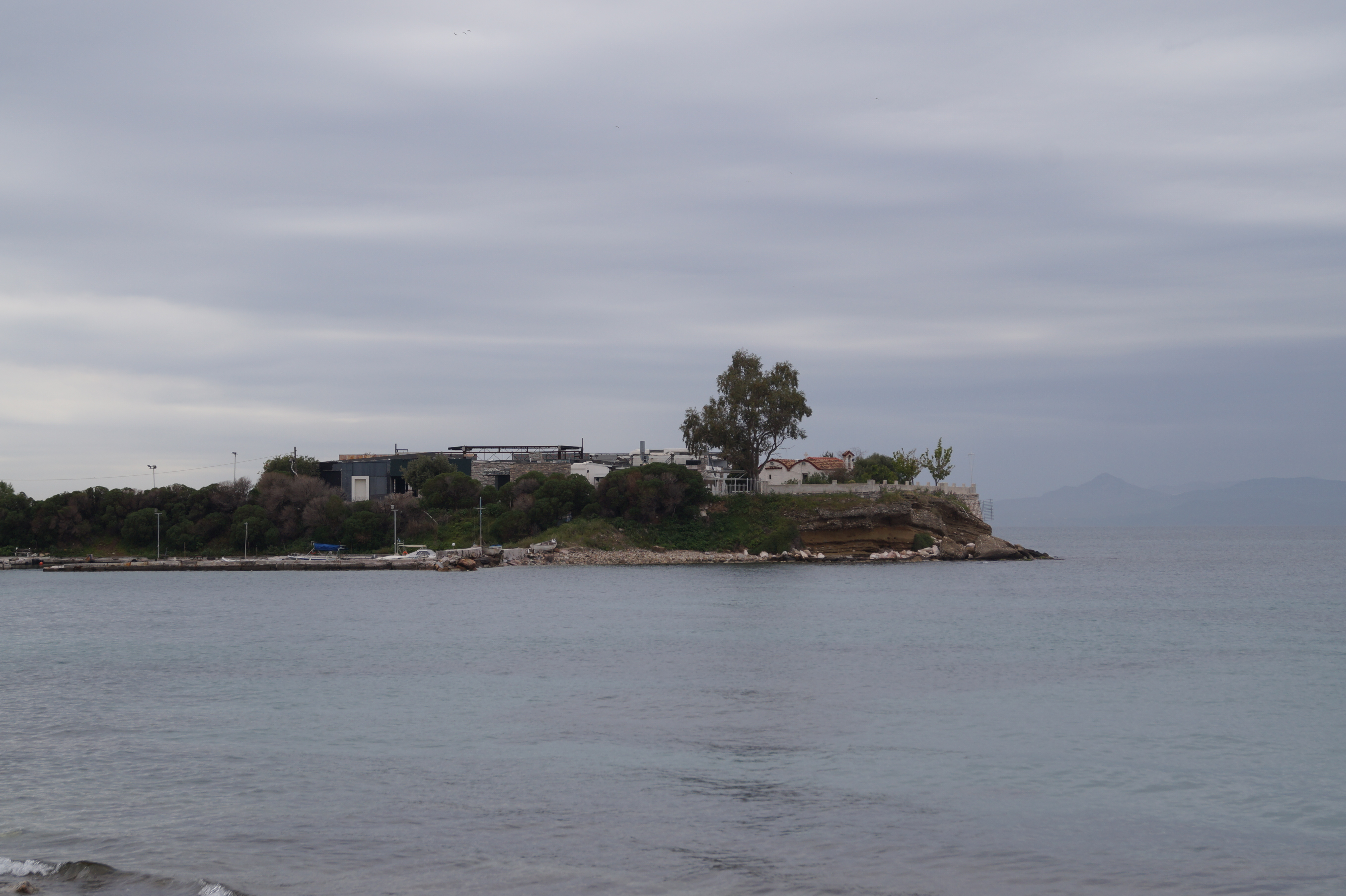 Elliniko-Argyroupoli, Athens, Greece: Promontory of Agios Kosmas. View from north. On the right there is the church of Agios Kosmas (19th century)